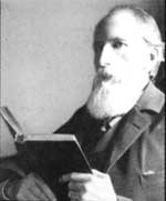 Judge John B. Waldo of Oregon. Former justice and chief justice of the Oregon Supreme Court.